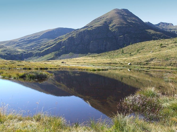 Passo del Vivione Picture taken by user Idéfix , august 31, 2006